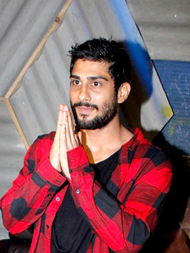 Prateik Babbar at Lilly Singh's party